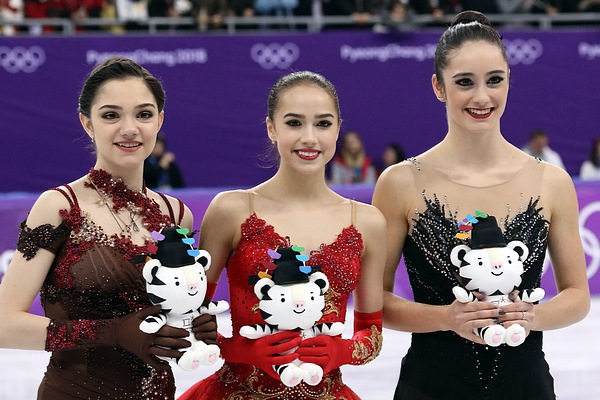 2018 Winter Olympic Games - Awarding ceremony